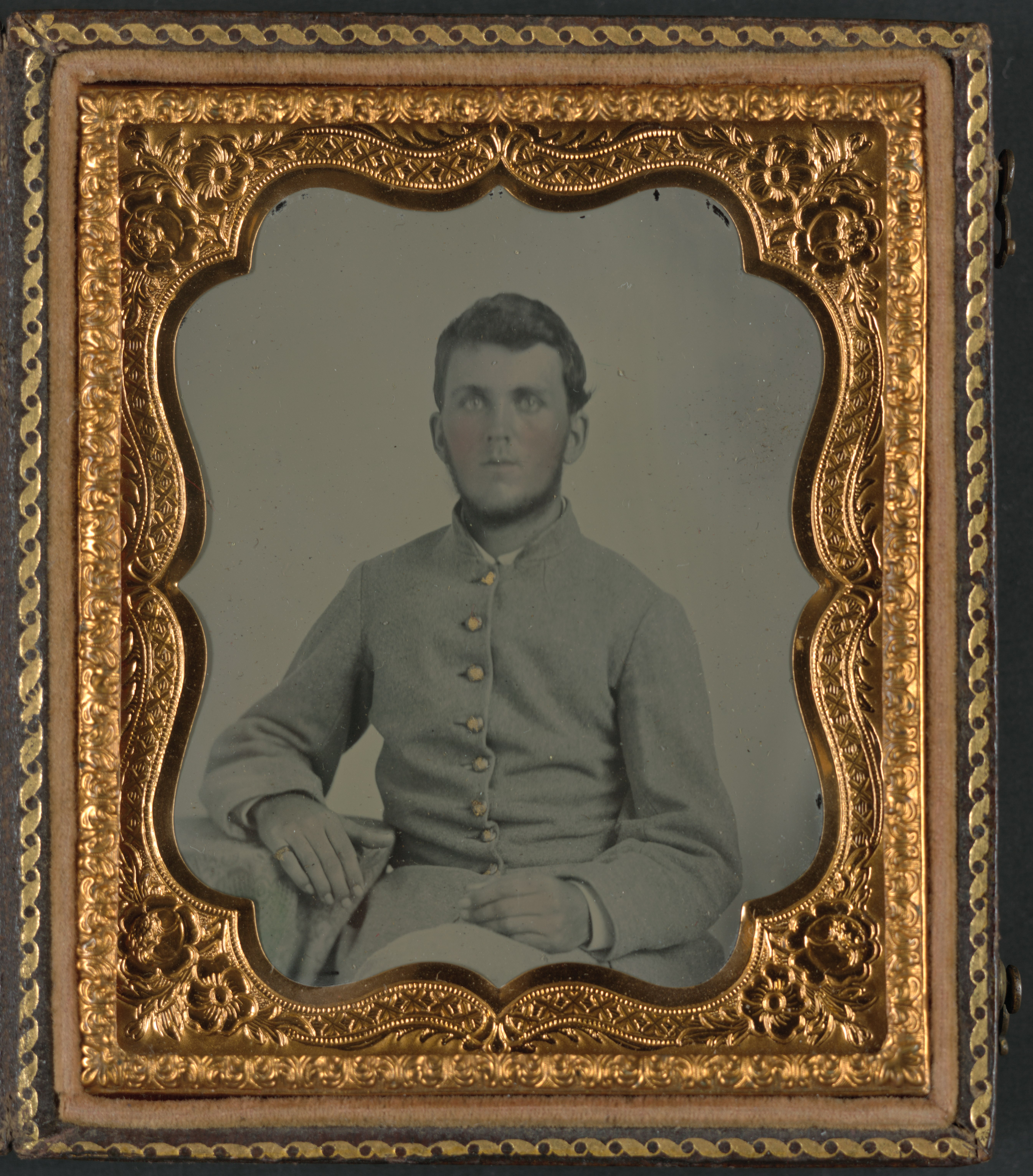 Title: Sergeant William T. Belew of Company H, 57th Virginia Infantry Regiment Abstract/medium: 1 photograph : sixth-plate ambrotype, hand-colored ; 9.5 x 8.2 cm (case)